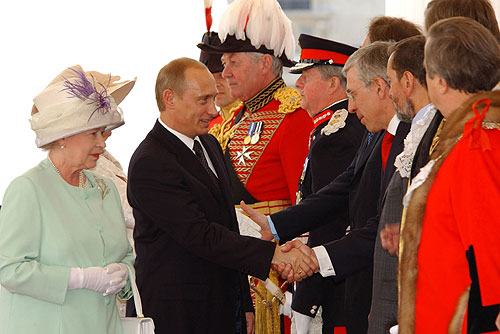 LONDON. The official welcoming ceremony for Vladimir Putin by HM Queen Elizabeth II.